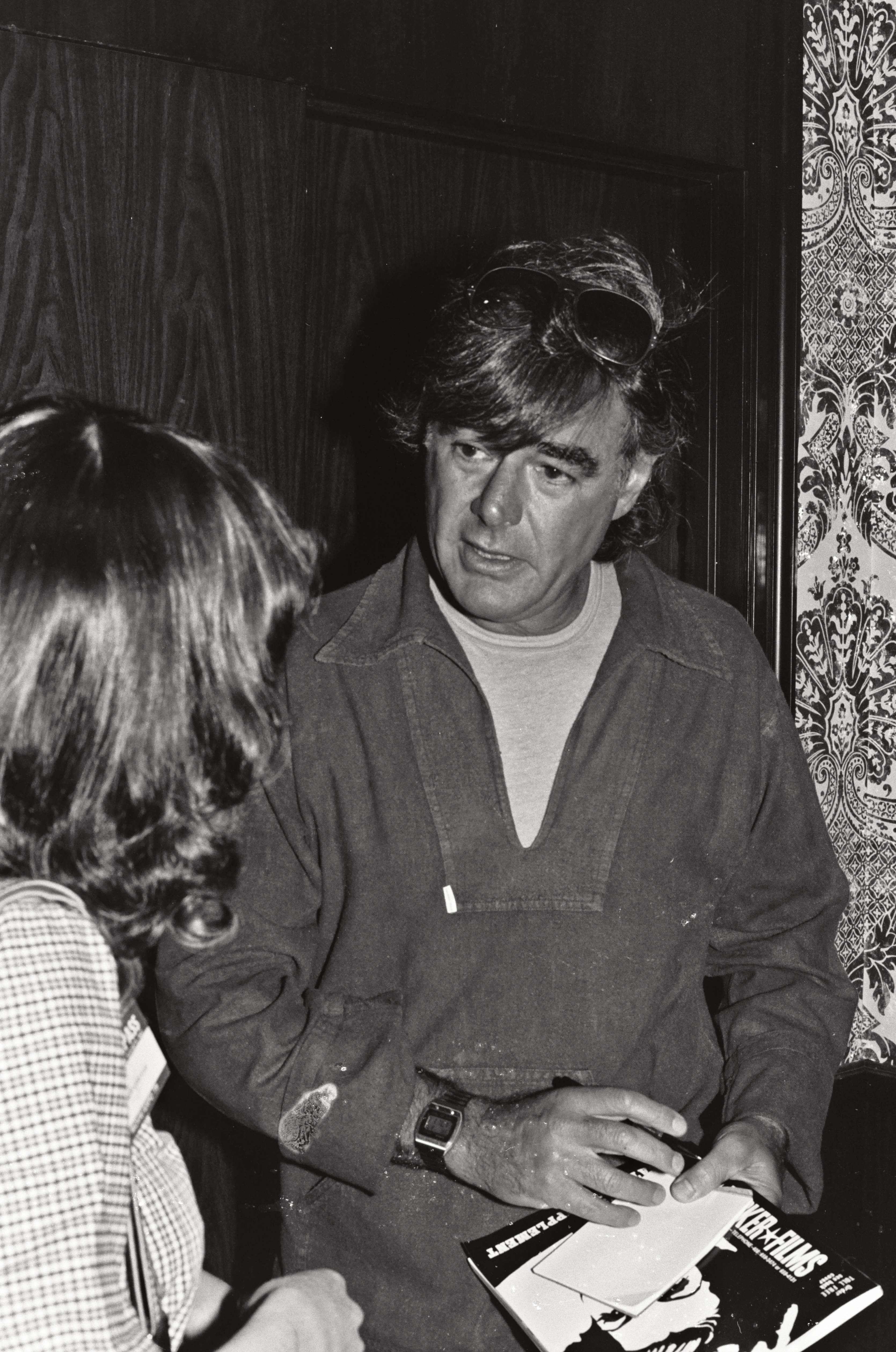 Director Richard Donner at the National Film Society convention, May 1979. NOTE: Permission granted to copy, publish, broadcast or post any of my photos, but please credit "photo by Alan Light" if you can. Thanks.